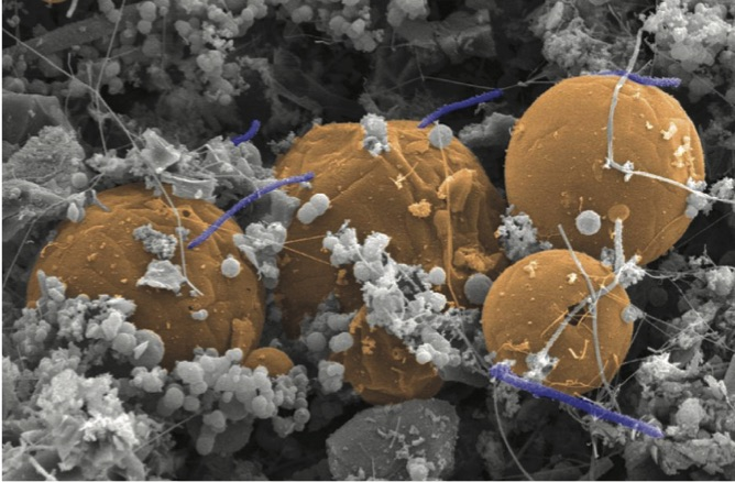 Electron micrograph with cells identified as "Candidatus Desulforudis audaxviator"